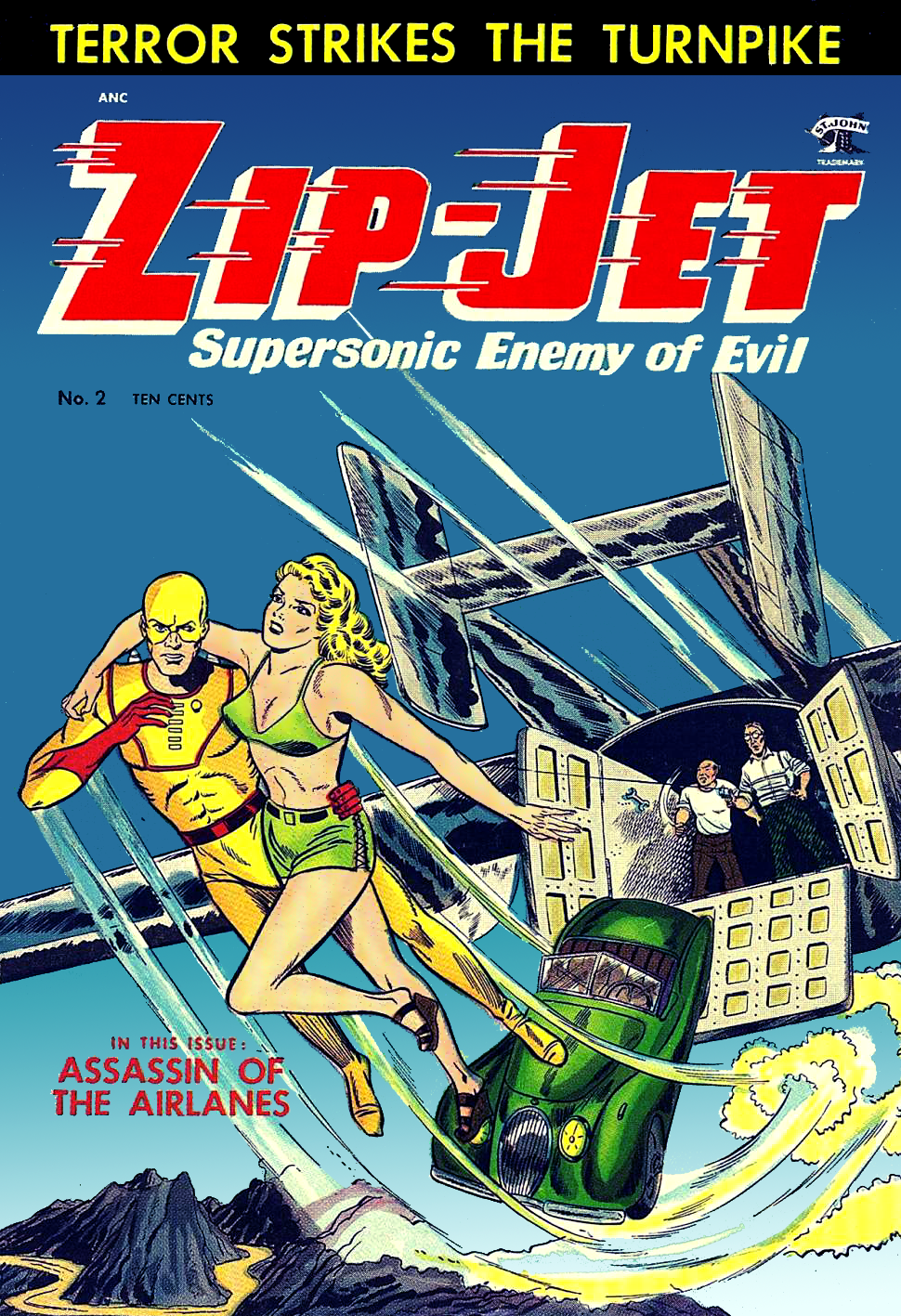 Cover of Zip-Jet Comics, volume 1, number 2, May 1953, published by St. John Publications Co. This image has lapsed into the public domain, due to St. John failing to renew the copyright. Zip-Jet was an updated version of the golden age superhero Rocket Man, created by Chelser Studios for Scoop Comics (1941). While short-lived, Zip-Jet was one of a small number of superheroes "revived" in the hiatus between the Gold and Silver Ages of Comics. Png version of this file.